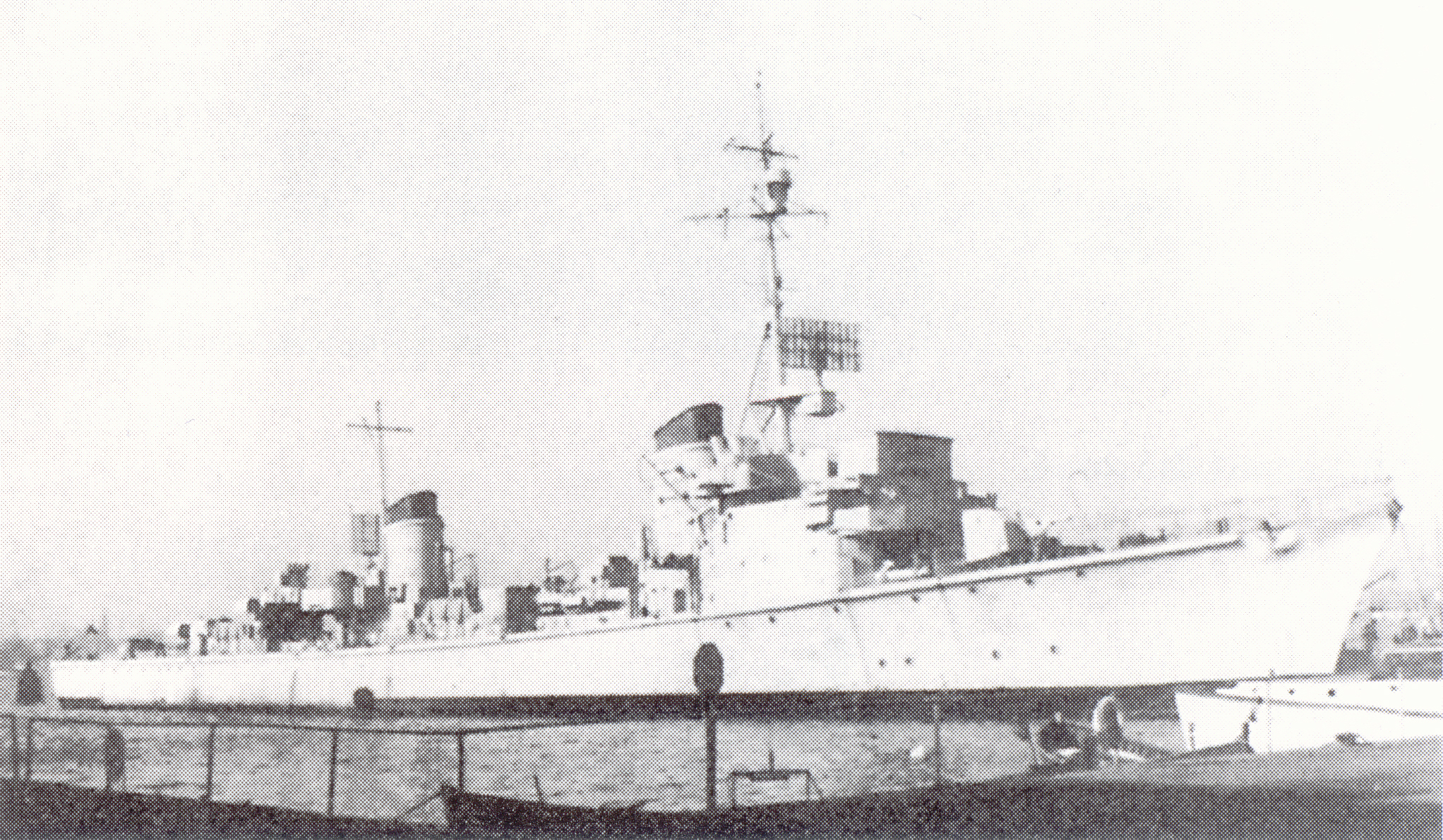 Former T35 as DD 935, Sommer 1945